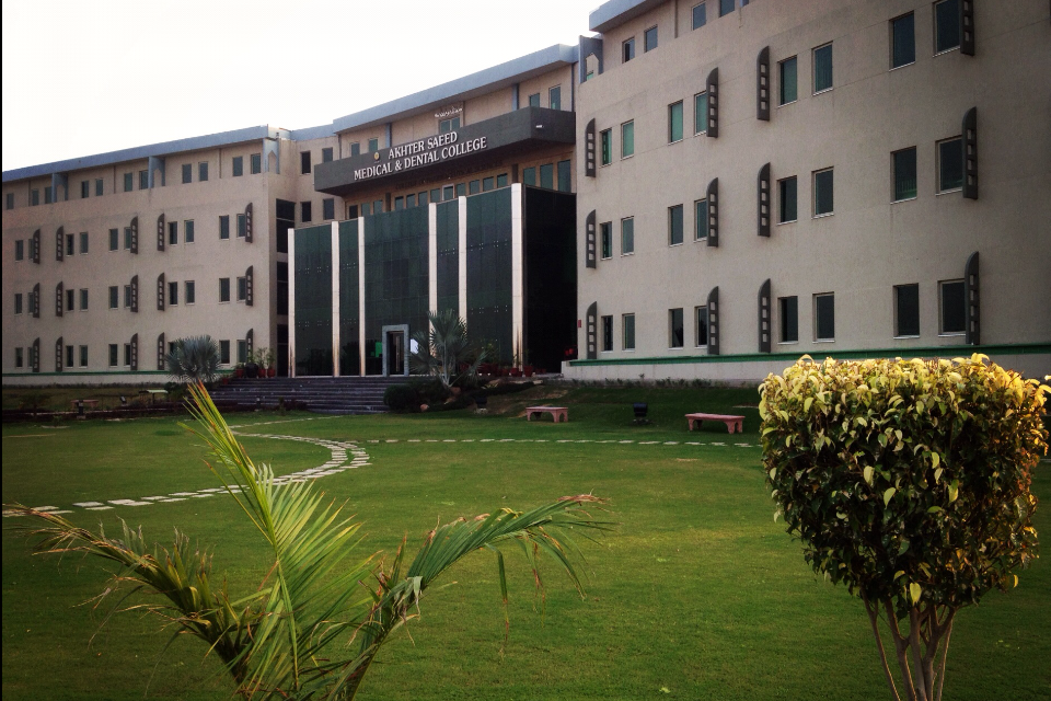 AMDC Side view